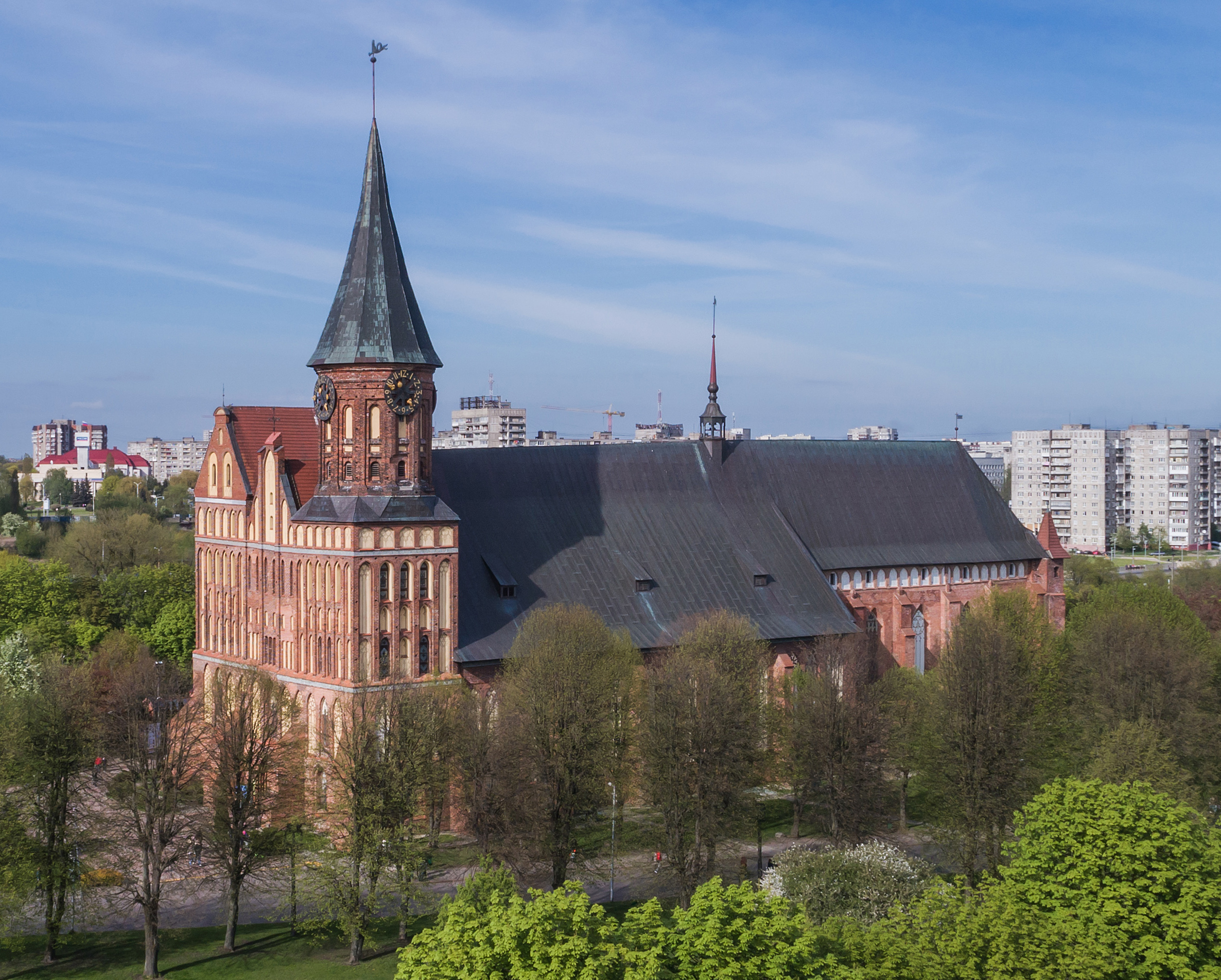 Historical Lutheran cathedral in Kaliningrad formerly Königsberg, Kaliningrad Oblast (Russia).